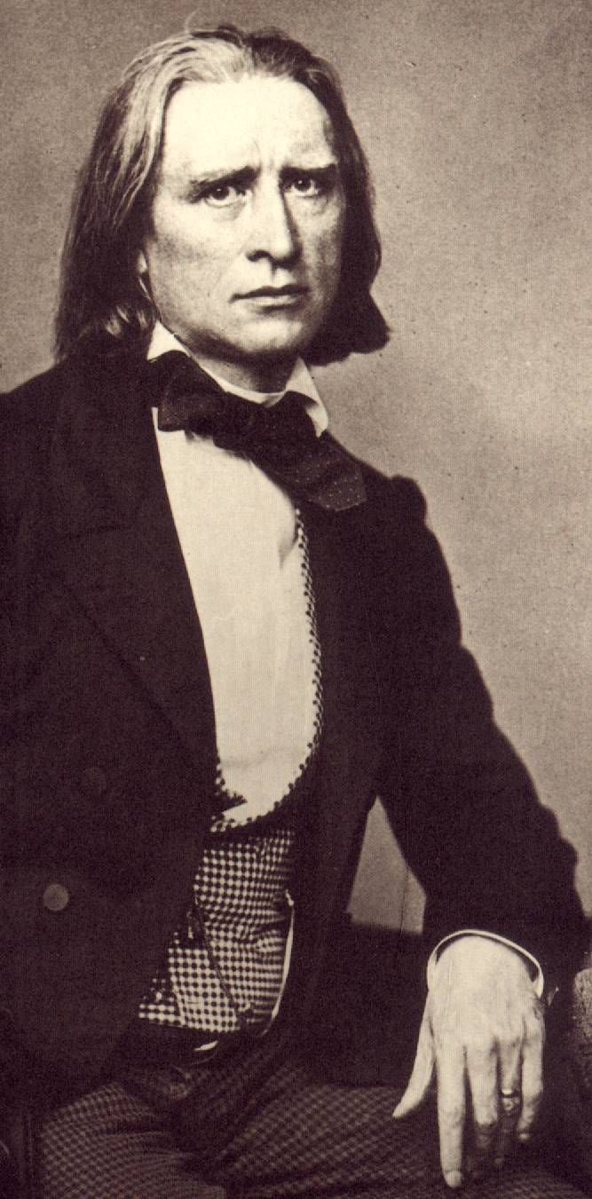 Detail of a photo of Franz Liszt (1811–1886)